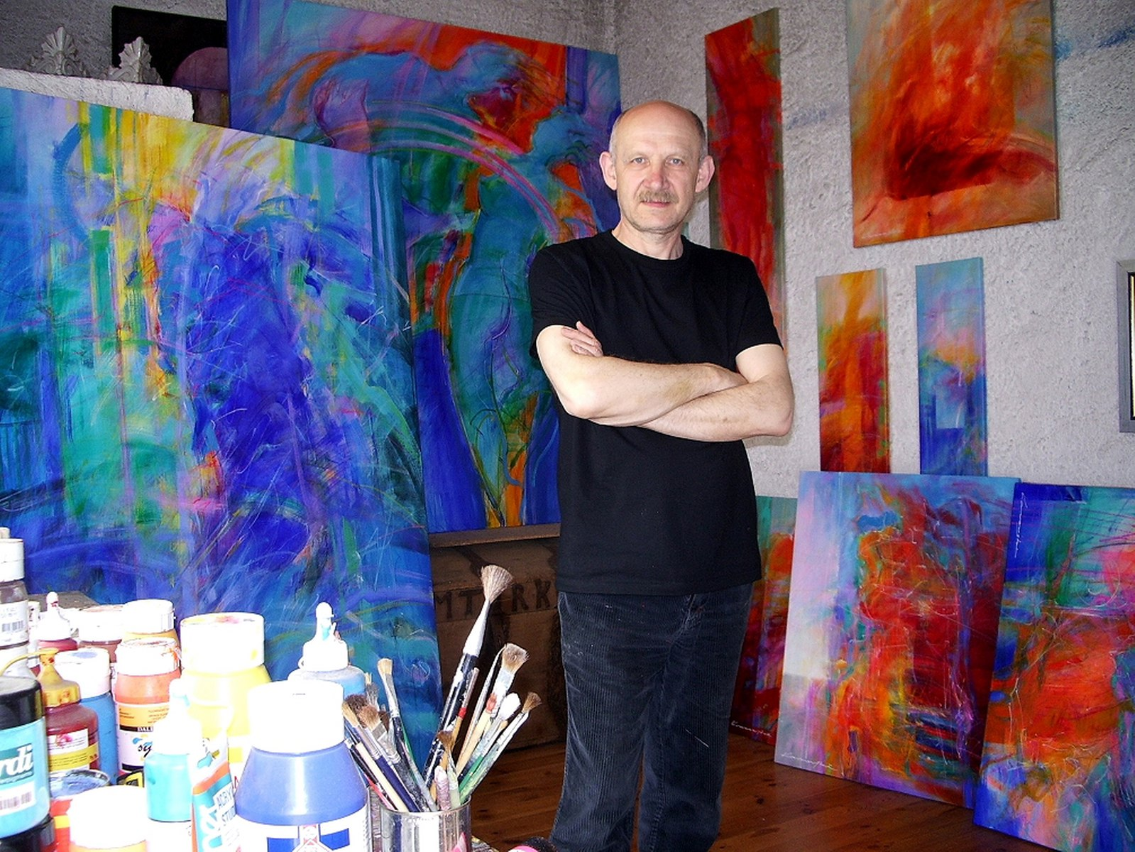 Antoni Karwowski in his workshop.